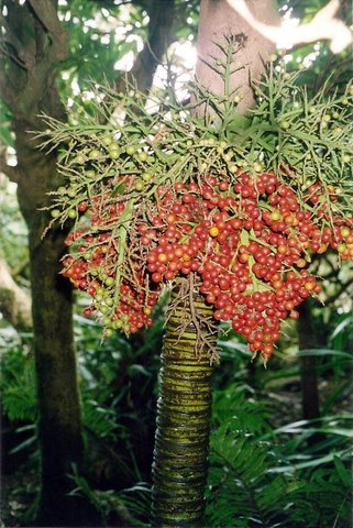 fruiting Lepidorrhachis mooreana at 820 metres above sea level, Mount Gower, Lord Howe Island, Australia